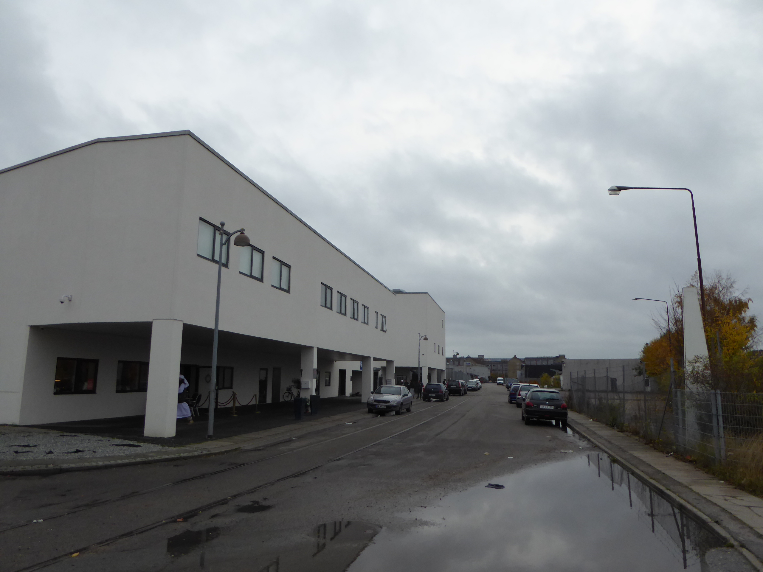 The street Vingelodden in Nørrebro in Copenhagen. At the left Hamad Bin Khalifa Civilisation Center.